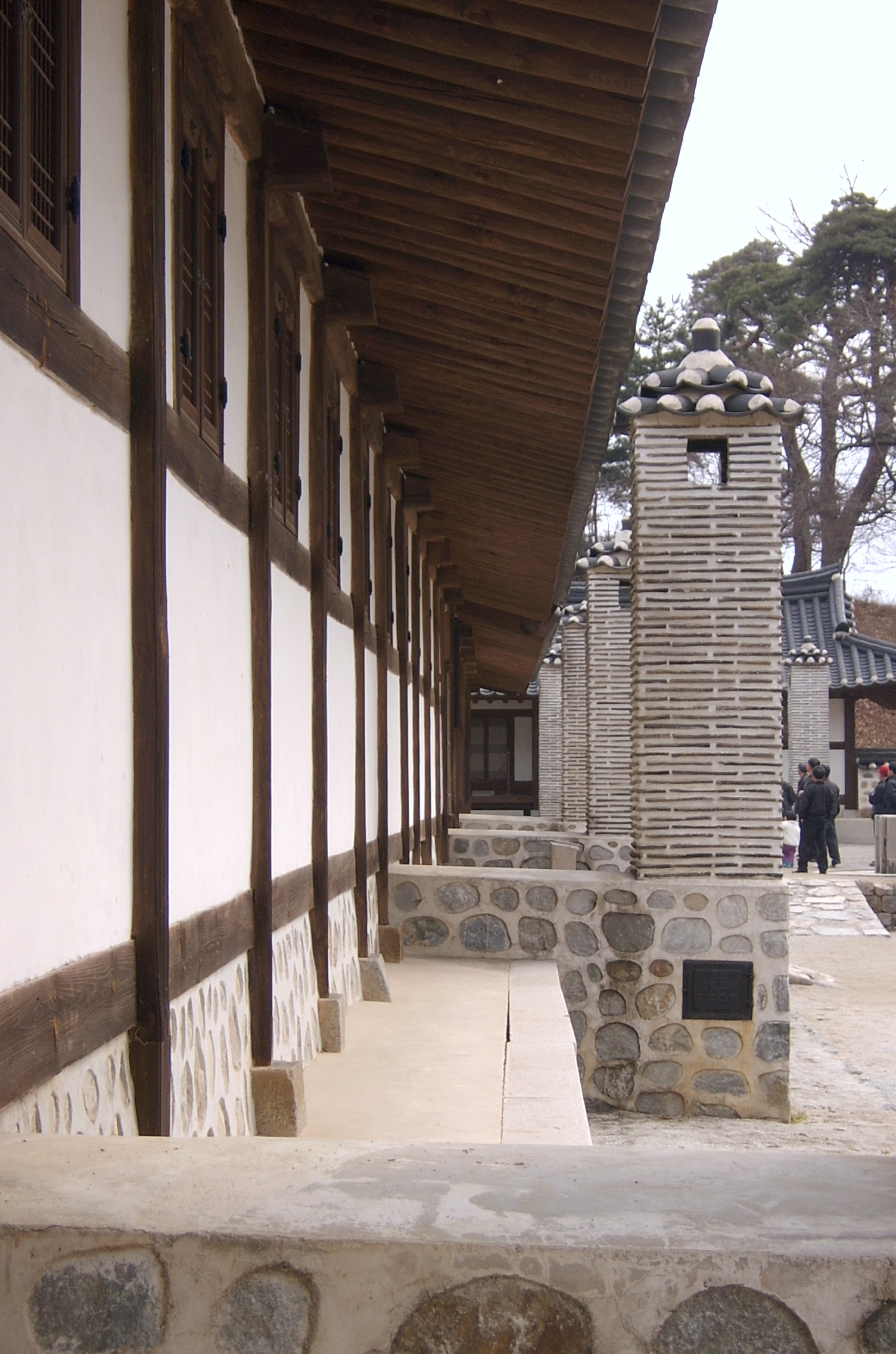 The picture was taken by Klaus314. Seongyojang, a country house of a prominent yangban family of Gangneung. Built in 19th century.